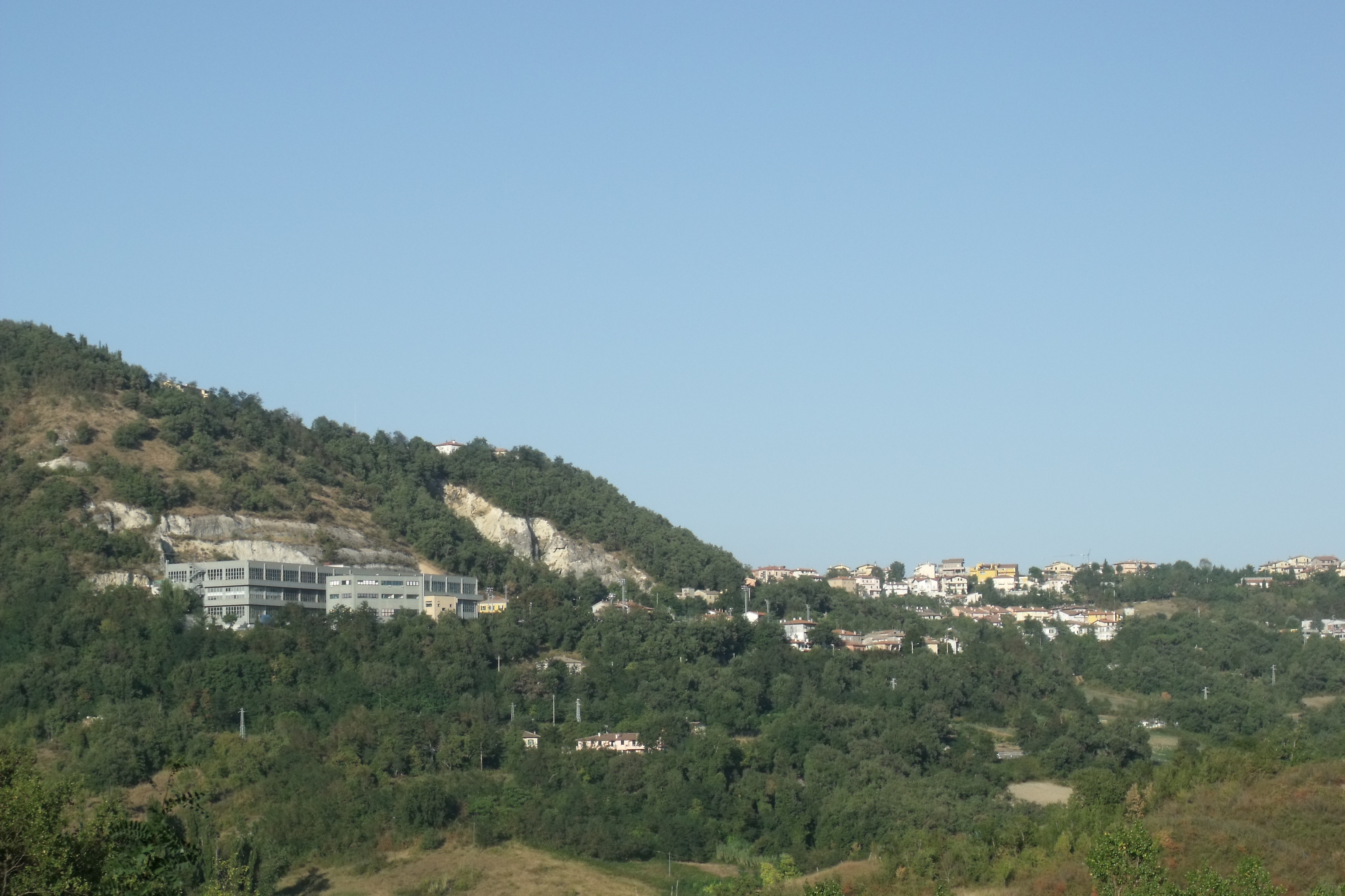 Panorama of Fiorentino, Municipality of San Marino